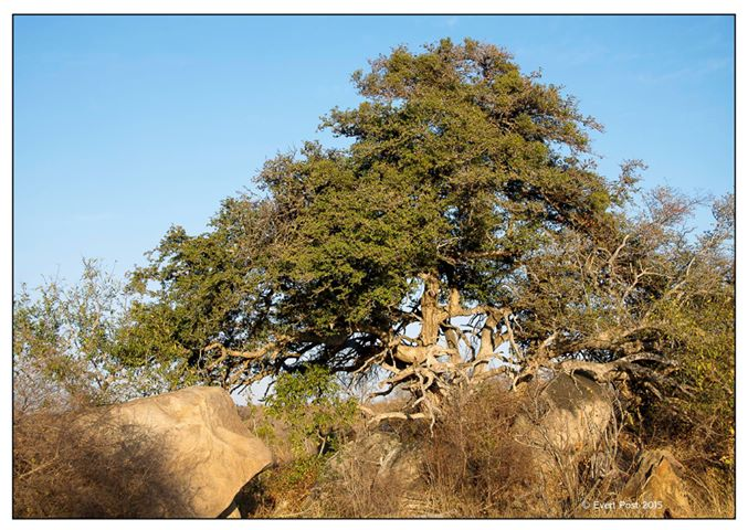 Manilkara mochisia (Baker) Dubard - a few kms north of Afsaal next to the H3 tar road in Kruger National Park, South Africa